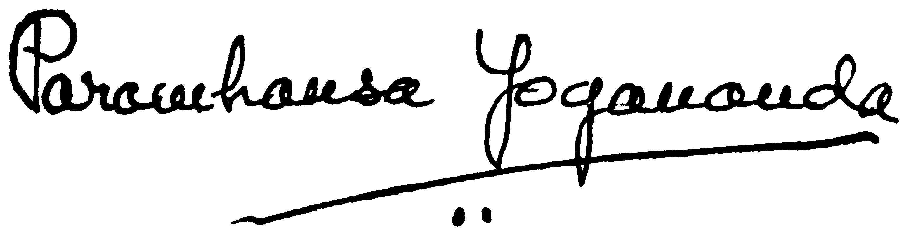 This is P. Yogananda's signature, as he signed it during his lifetime. Note that he transcribed his attribute as "ParaMHaNsa" at that time, omitting the almost mute 'A' between M and H. The scholarly transcription is Paramahamsa.